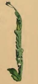 Stainton’s Natural History of the Tineina (1855–1873): Agonopterix pallorella leaf of Centaurea scabiosa folded by larva